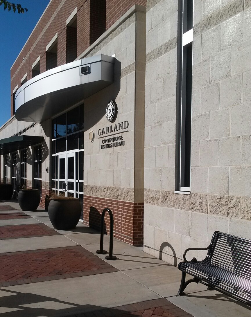 Garland Convention and Visitors Bureau